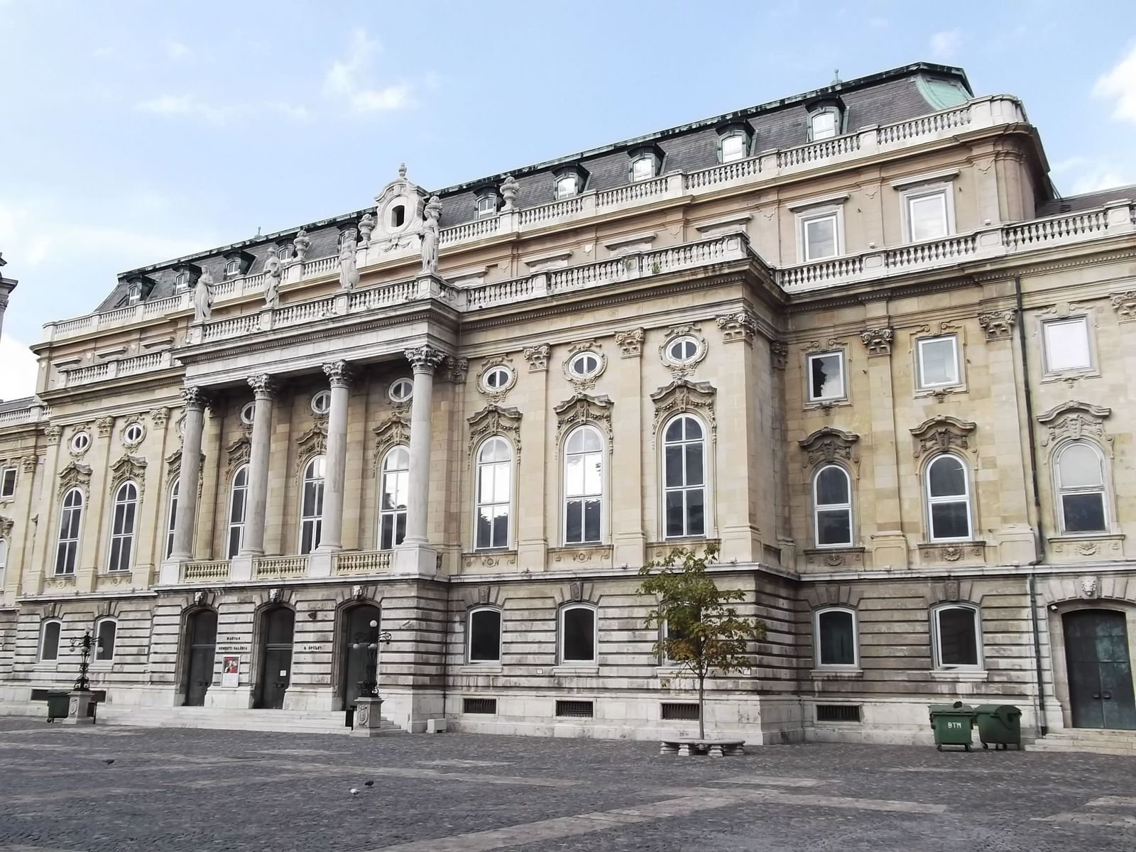 Budapest, Castle Hill, Hungary